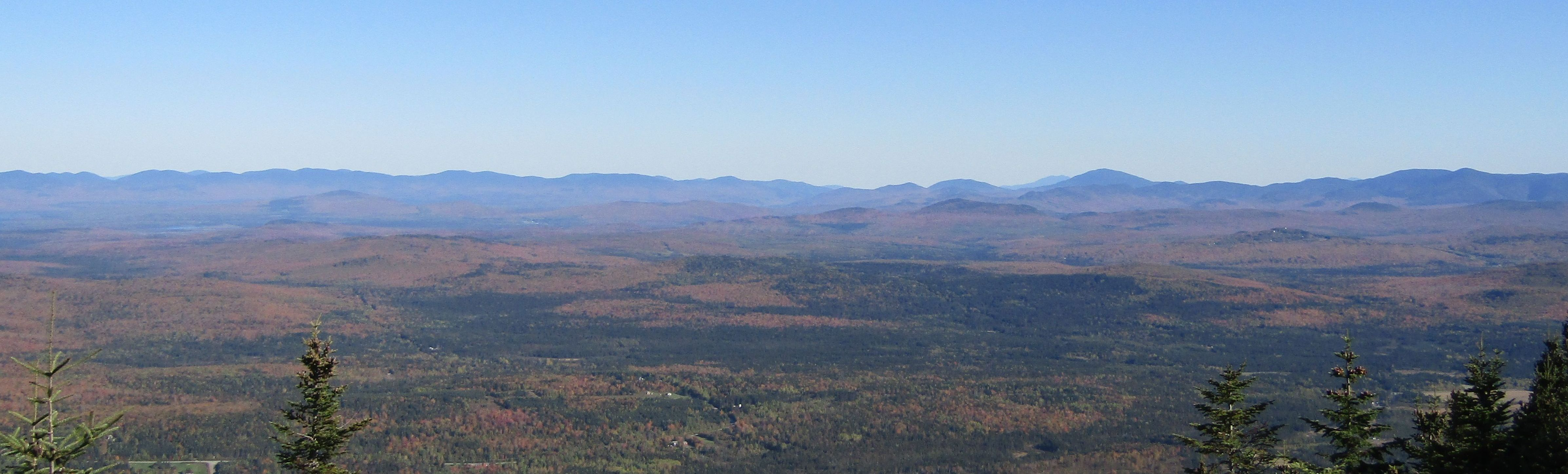 Province of Quebec and State of Maine border mountains view from St. Joseph mountains (Quebec).